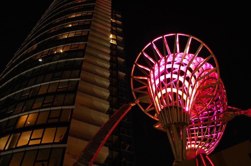 Sculpture Aurora (2005) by Geoffrey Bartlett at Docklands, Victoria - Melbourne/Australia